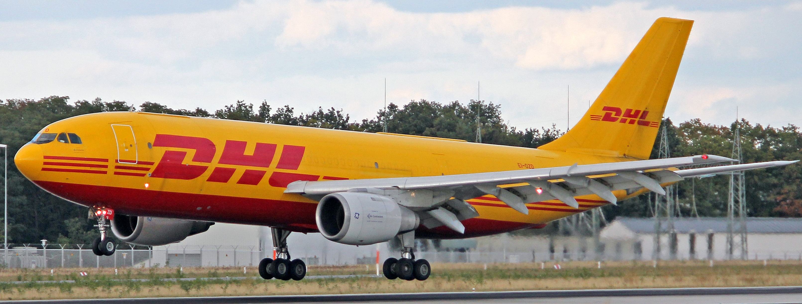 An A300 of DHL landing on the North-West Runway at Frankfurt Airport